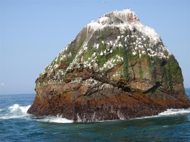 Rockall - the most difficult island in the world to sleep on